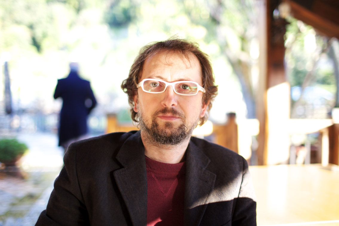 Simone Cecchetti is an Italian photographer. This is a self portrait taken in 2011